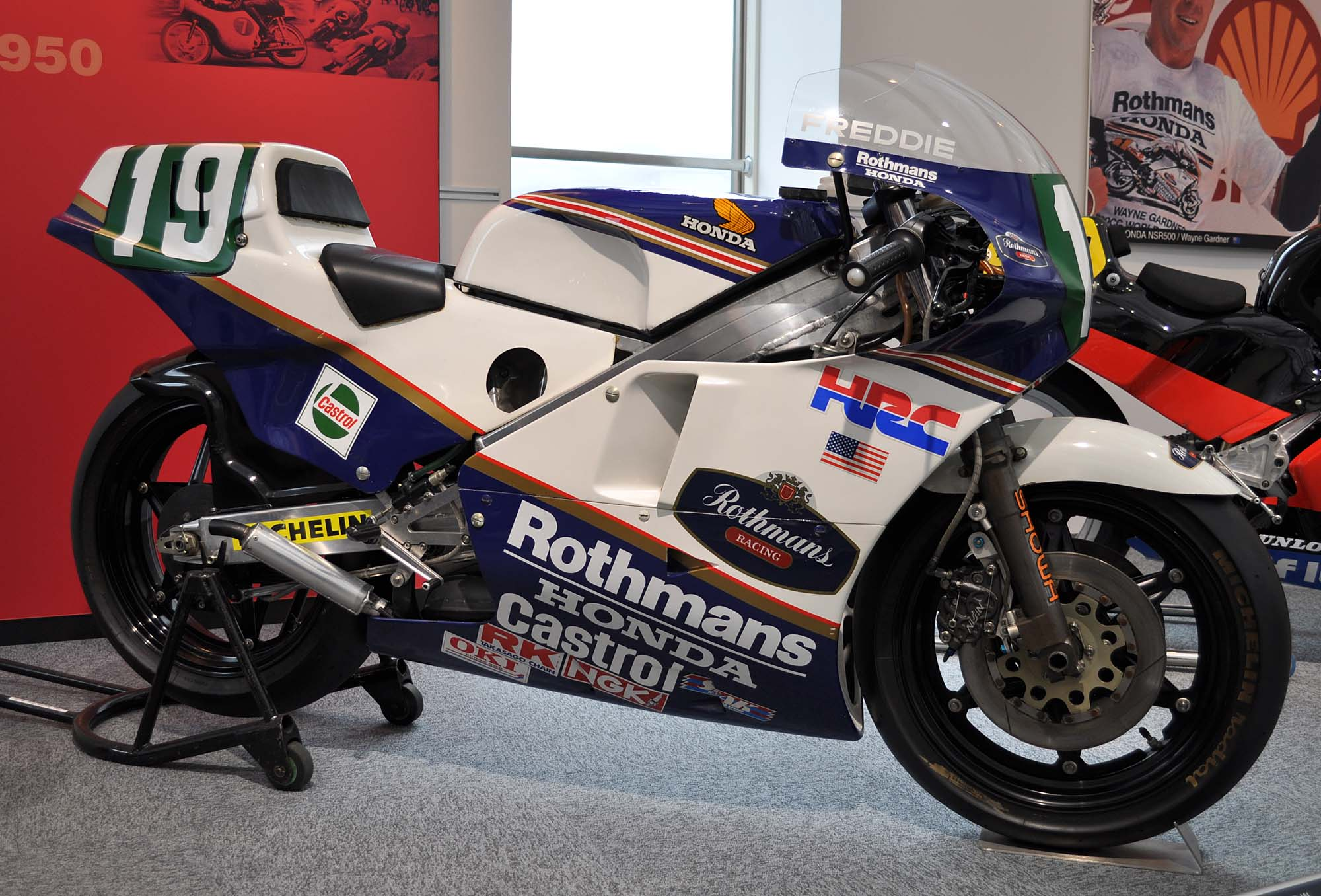 Honda RS250R-W (Freddie Spencer, 1985)